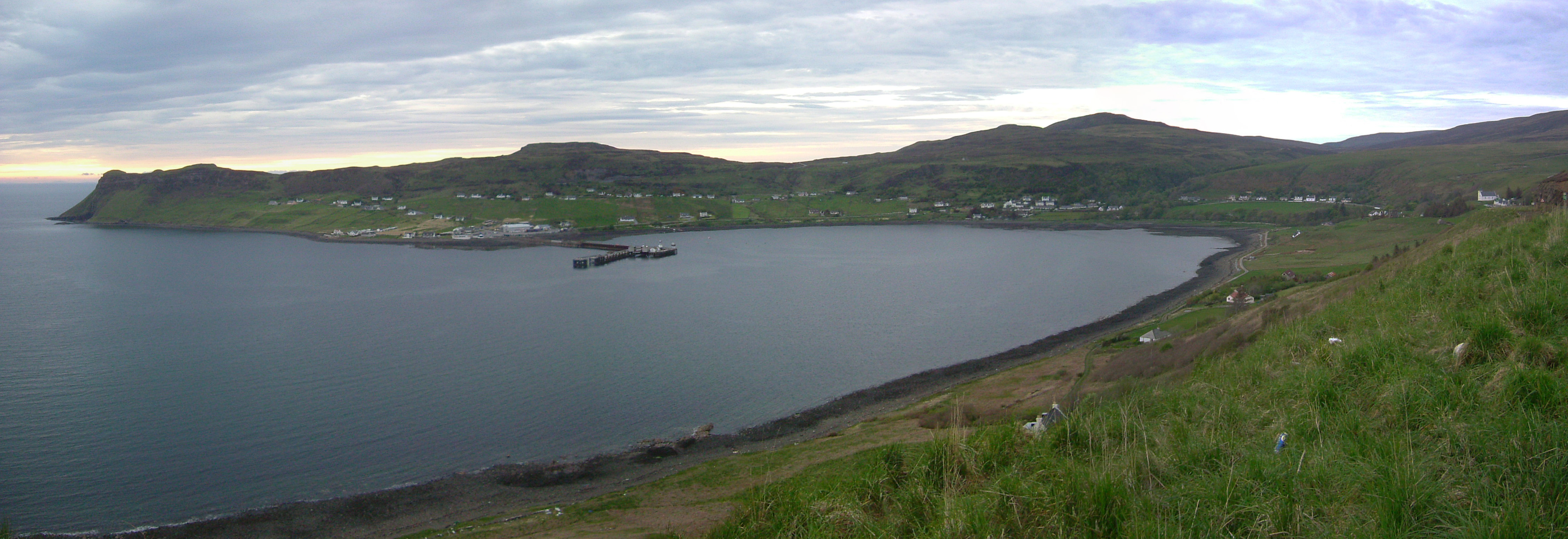 The village of Uig lies in a sheltered bay near the north end of the Isle of Skye (Inner Hebrides).